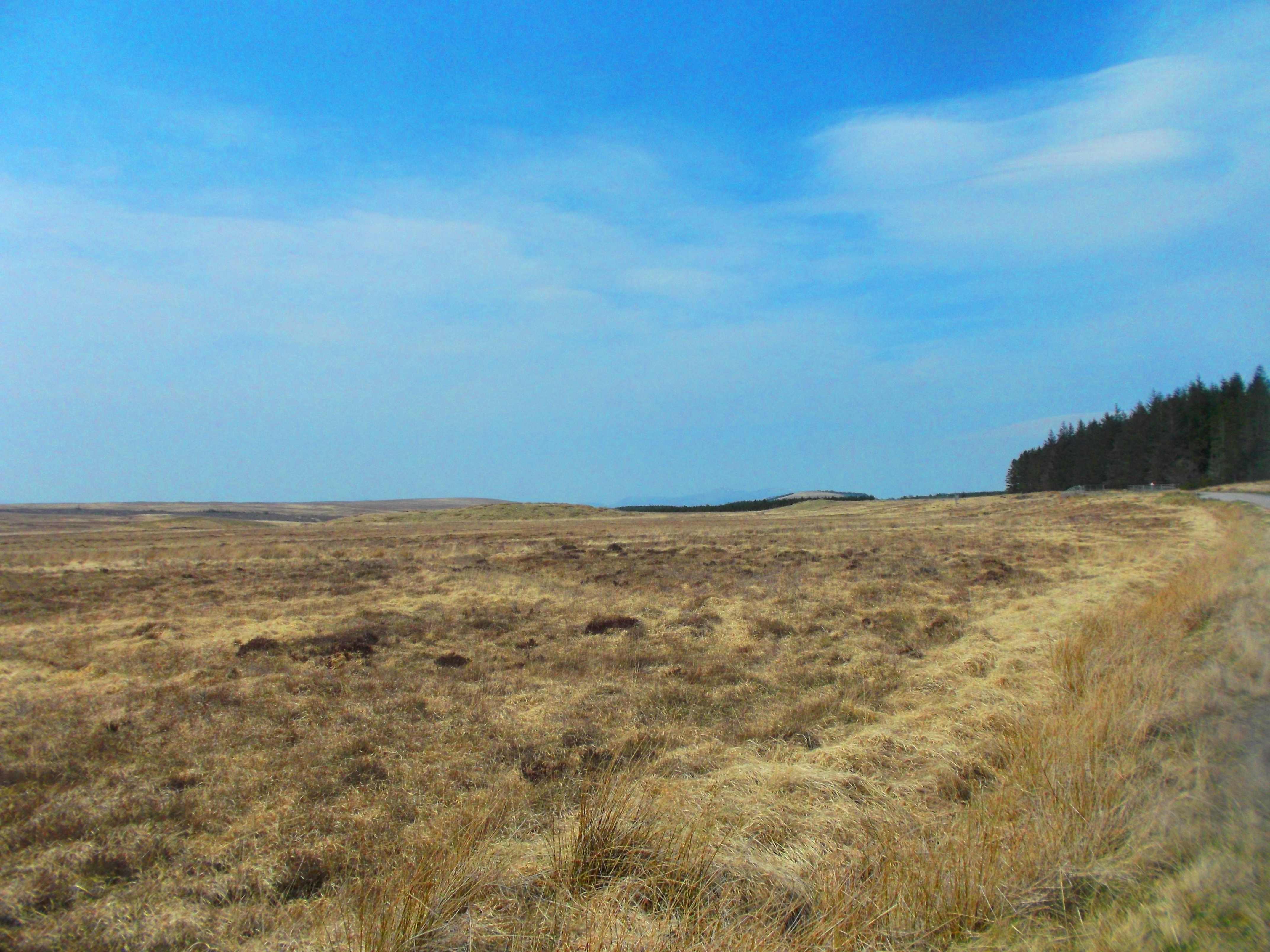 Mire landscape in the Scottish Highlands (Lairg)